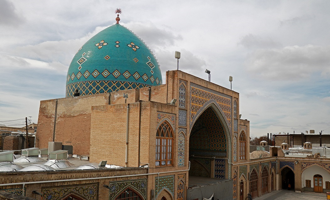 Jameh Mosque of Zanjan - 18 February 2018. main album